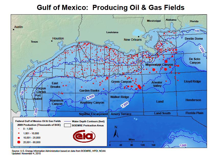 Off shore oil and gas fields in the United States federal zone, Gulf of Mexico